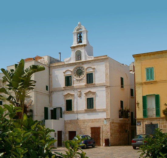 Polignano a Mare: Piazza dell'Orologio picture taken by user:Idéfix july 2003